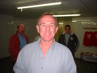 Photo of Ian Bowyer taken at Meadow Lane in 2003. Taken with permission from